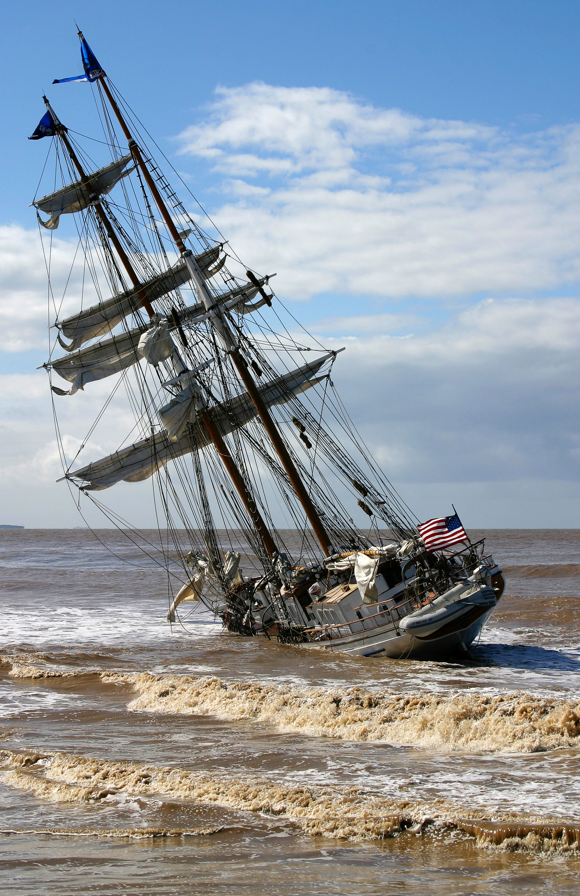 The tall ship Irving Johnson lies hard aground, only yards from shore, near the entrance to Channel Islands Harbor, Oxnard, California, March 2005.